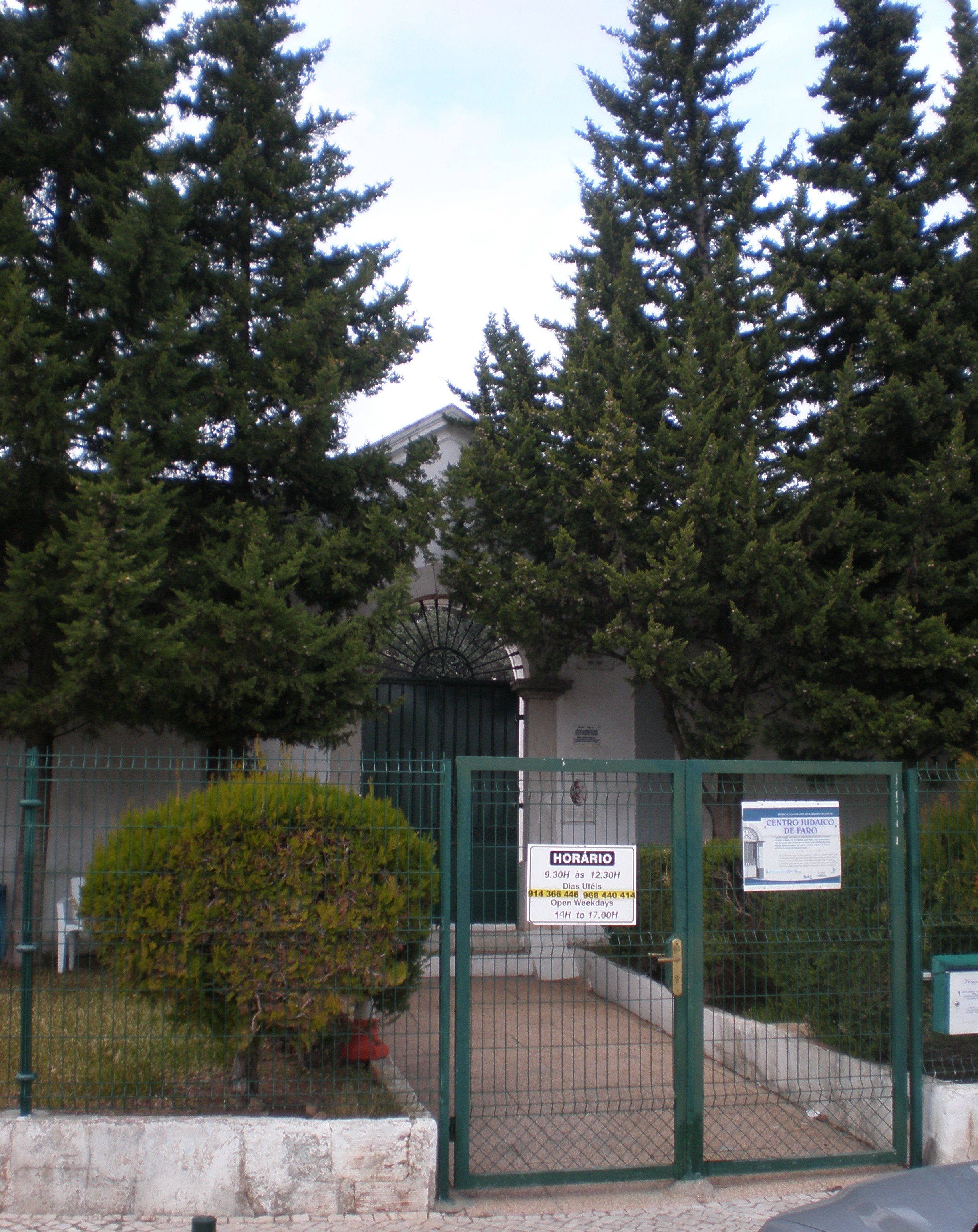 Jews Cemetery, Faro, Portugal